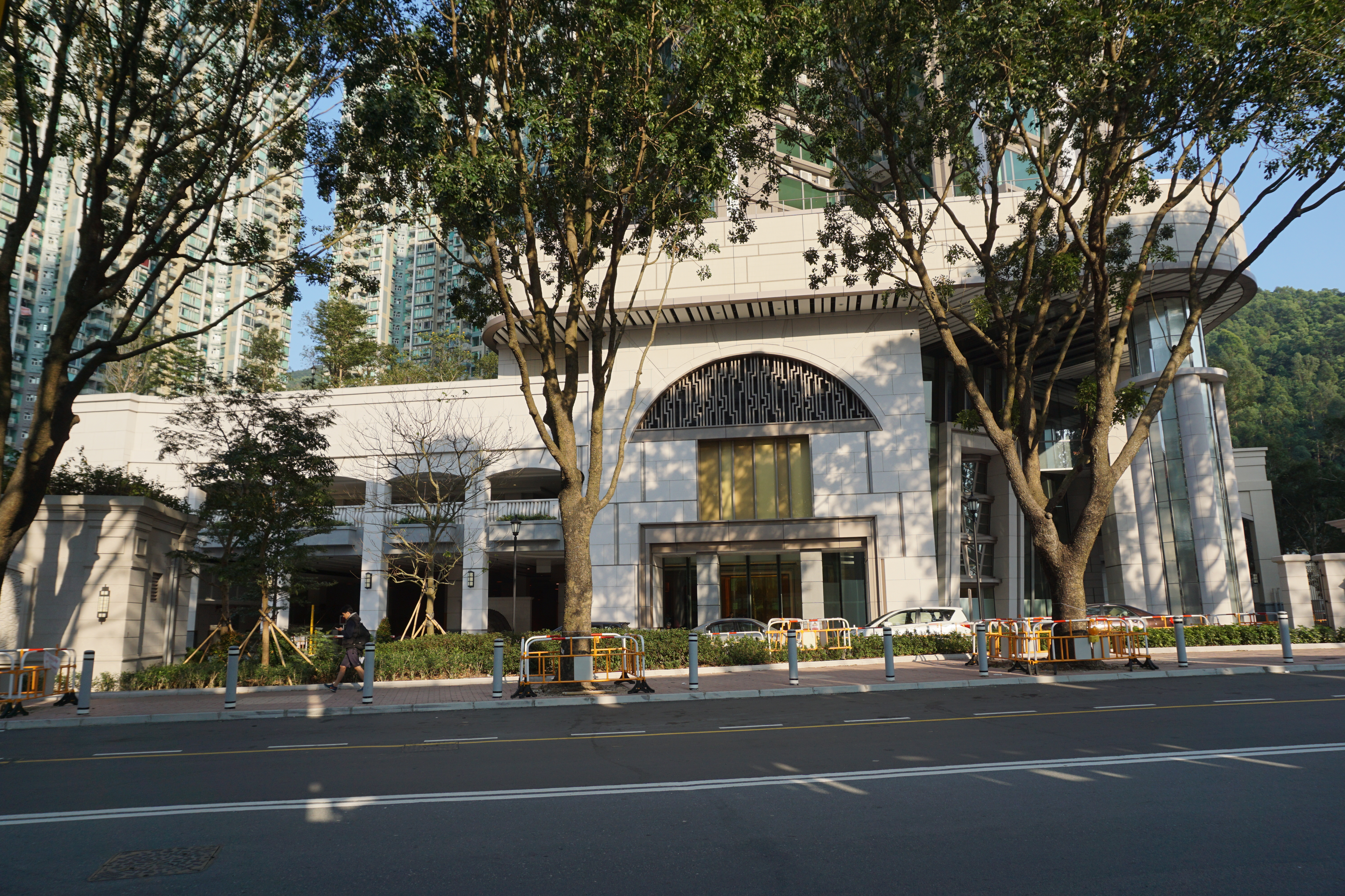 The Beaumount in Tseung Kwan O, Hong Kong.